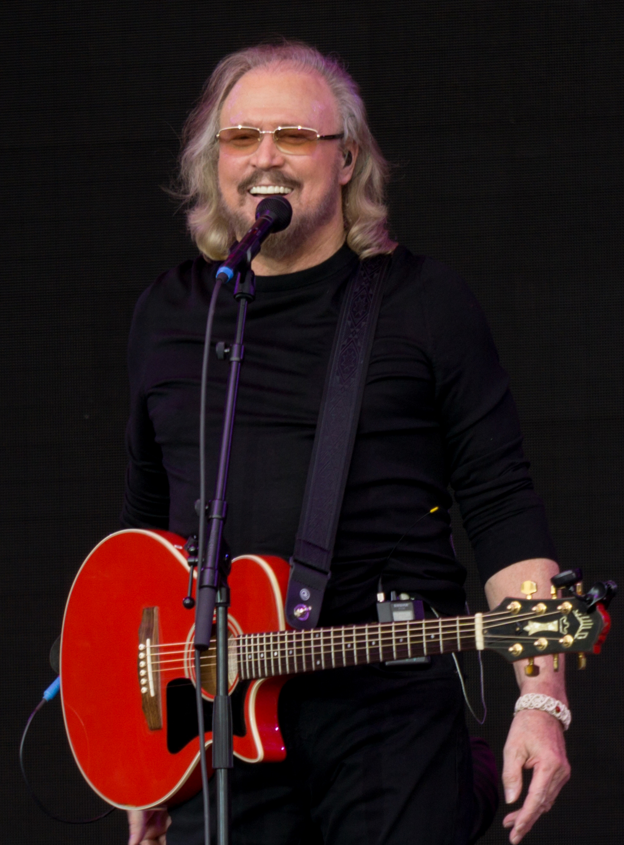 Sir Barry Alan Crompton Gibb, CBE is a British-American singer, songwriter, musician and producer. He rose to fame in the company of his brothers, the twins Robin and Maurice forming the group of the Bee Gees. «Last survivor of the Bee Gees».